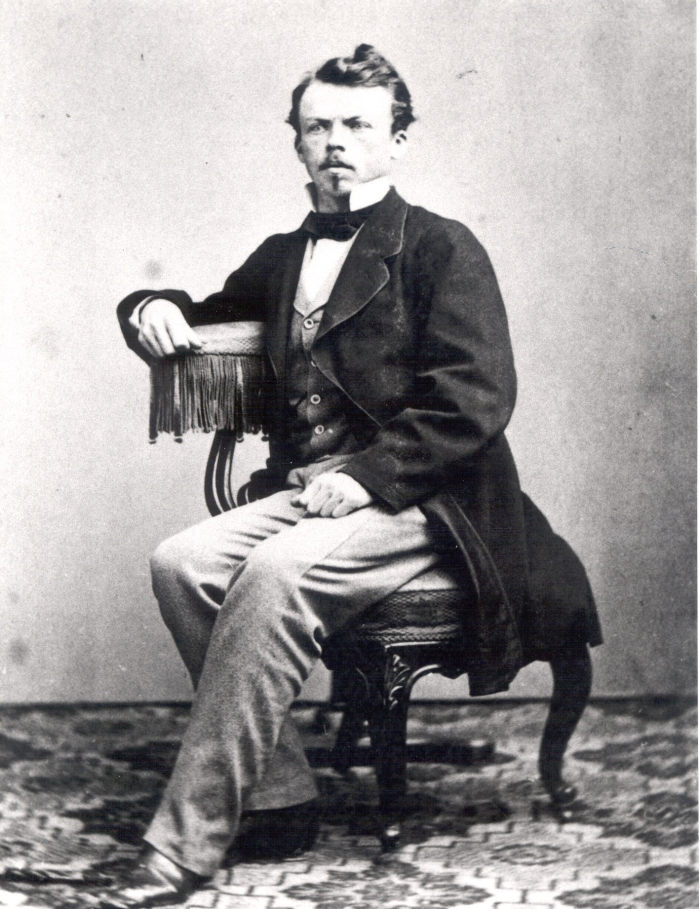 Photographic portrait of Carl Albert Oppel (1831–1865), a German paleontologist with considerable contributions to the research of the Jurassic geological period.